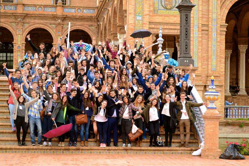 Sesion Nacional SVQ